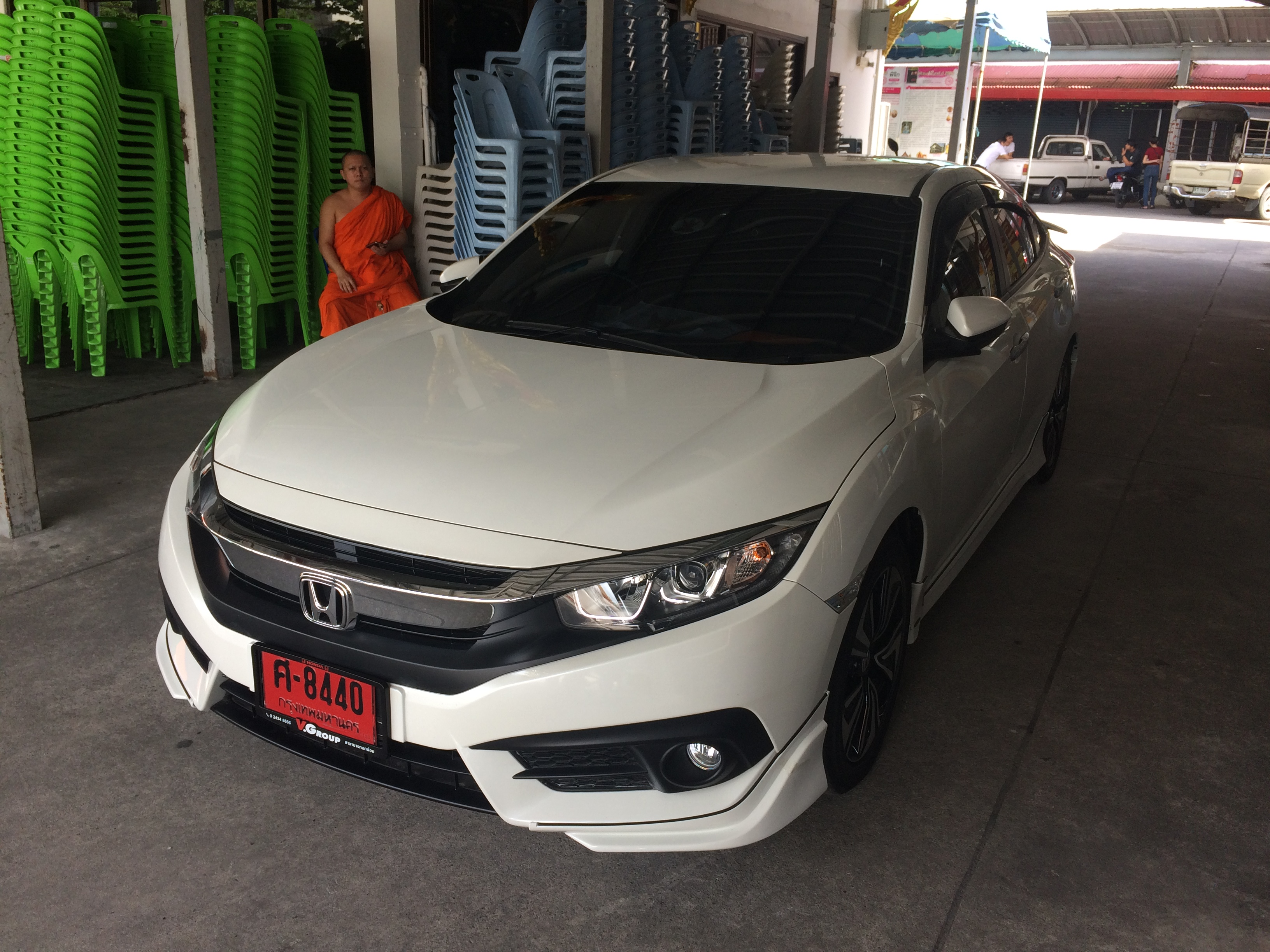 2017 Honda Civic (FC) 1.8 EL Sedan (12-08-2017) in Bangkok Thailand.